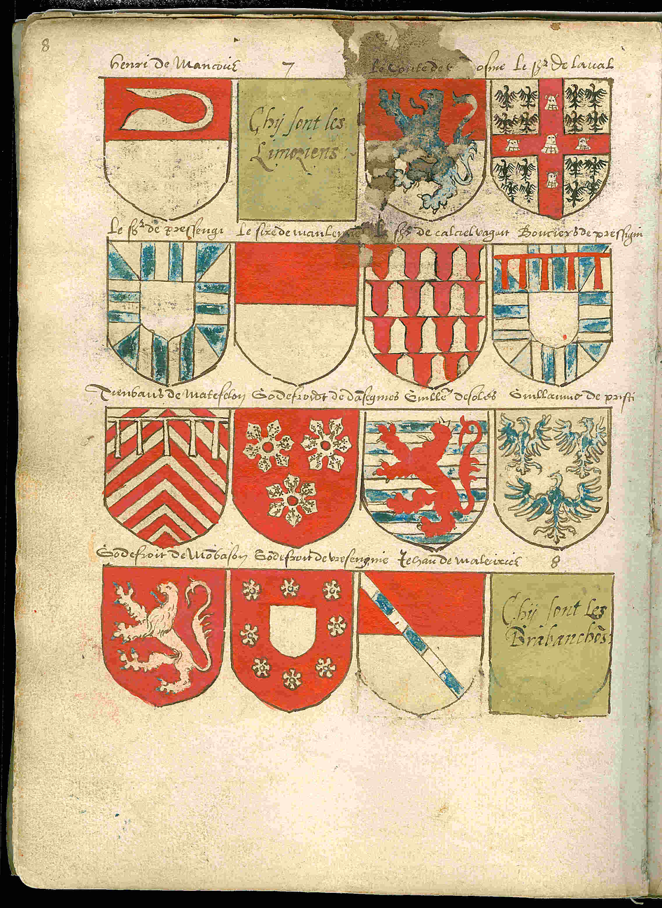 Page 08 from a copy of the Beyeren armorial / Wapenboek Beyeren from ca. 1600. The original Beyeren armorial from 1405 can be viewed at the website of the KB